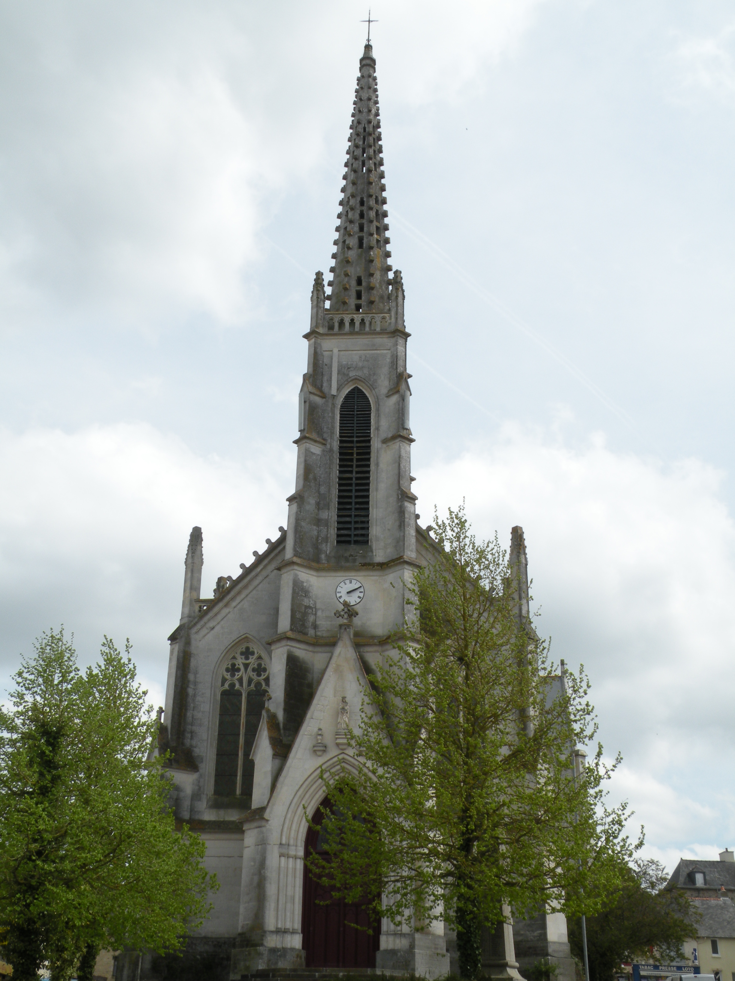 Church of Bourg-des-Comptes